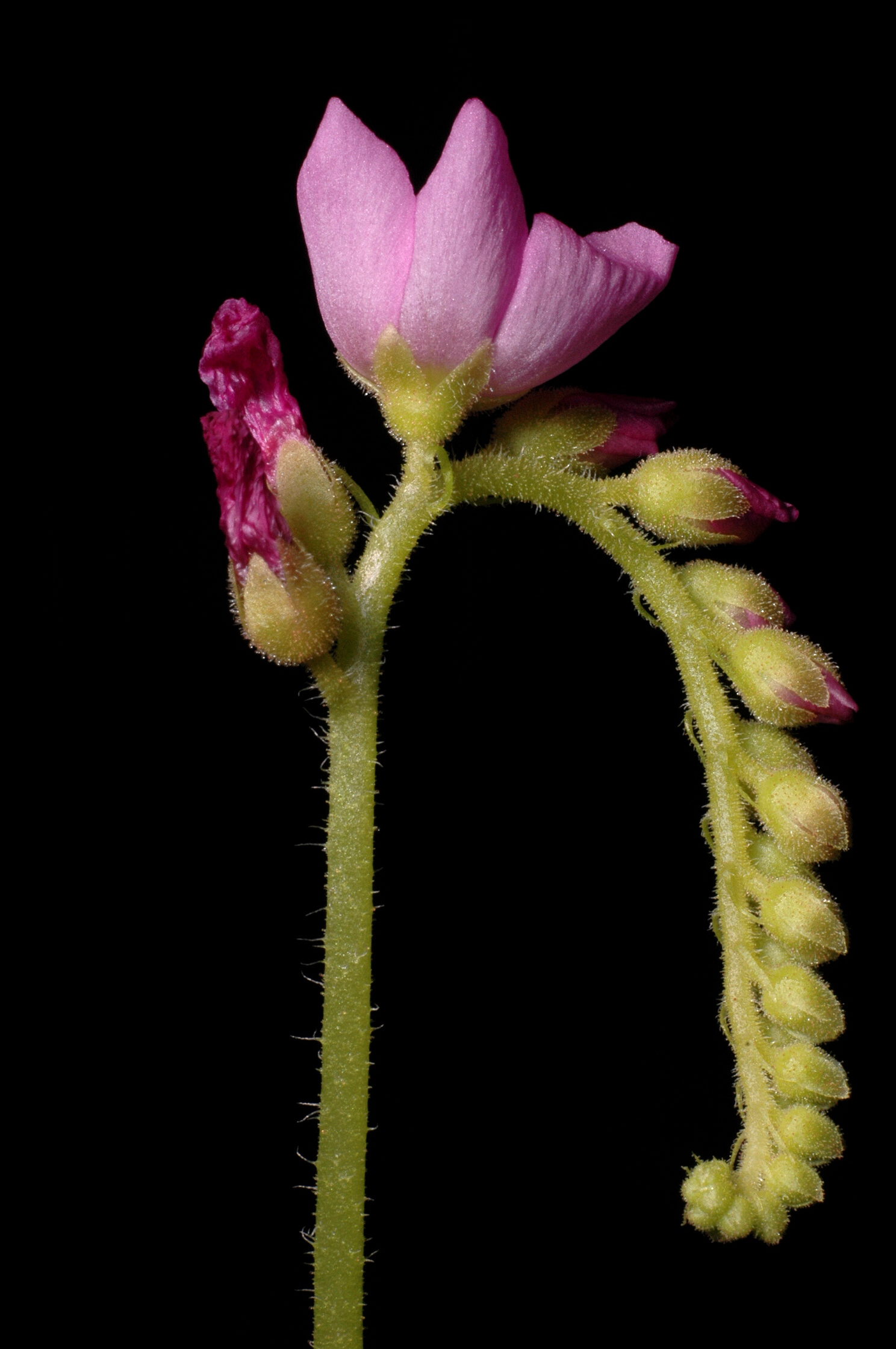 Drosera capensis